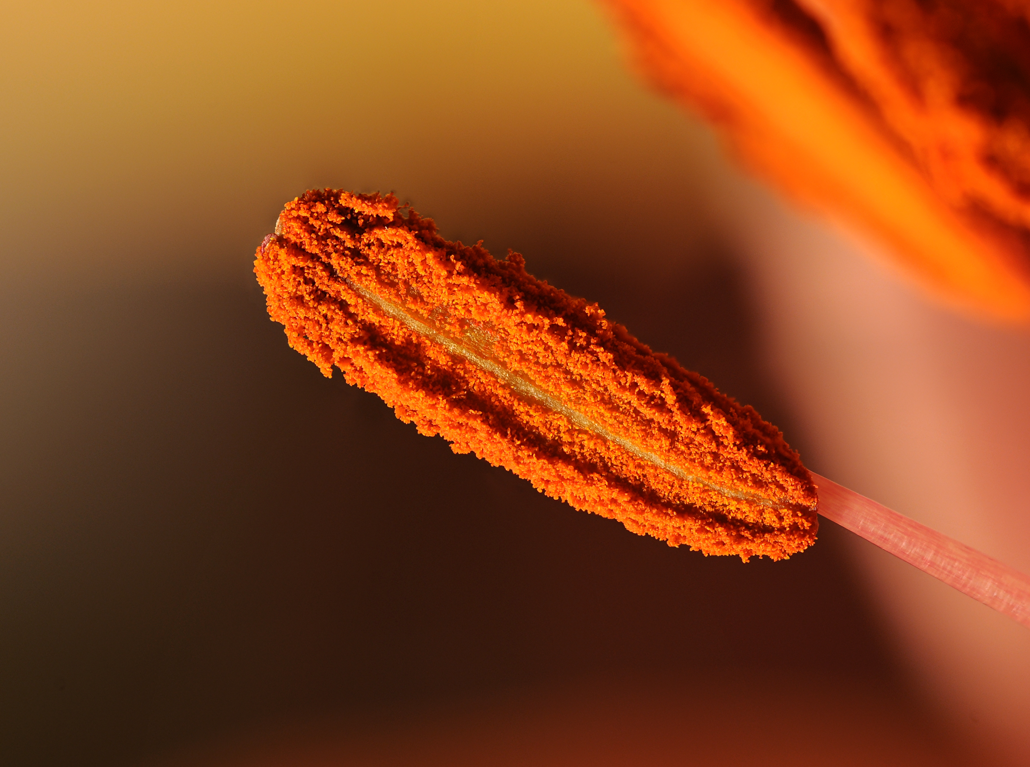 This photograph was taken with a Nikon D300 This image was created with CombineZP ( It was created out of 14 single images.). Étamine d'une fleur de lys (Liliaceae sp.) (focus stacking). Image composée de 14 photos assemblées avec CombineZP.